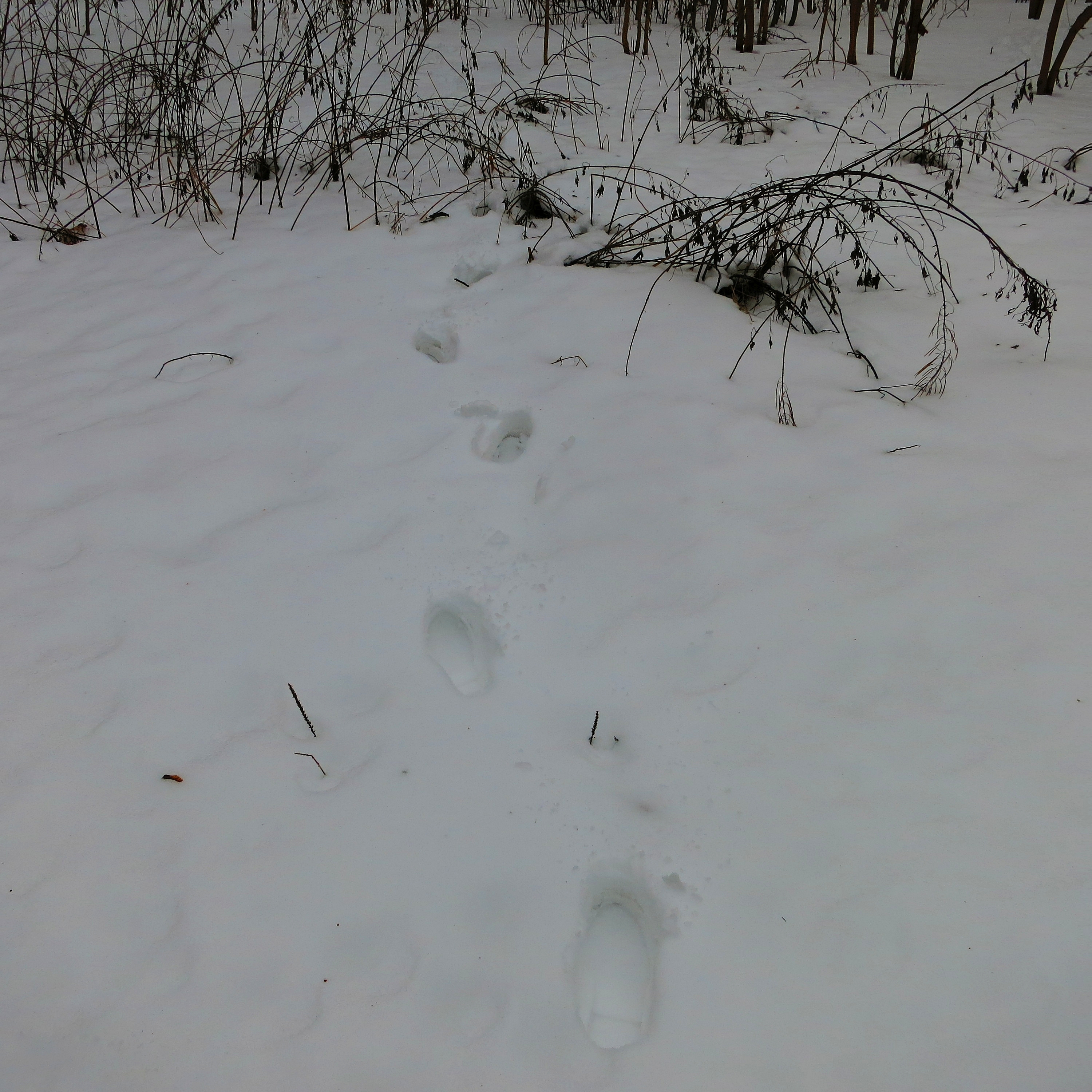 Human traces in snow